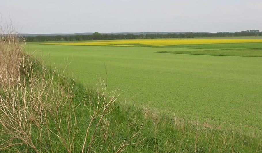 View from the Fuchsberg (hill) nearby Baitz over the Belziger Landschaftswiesen. In the background the „Hohe Fläming“. The village Baitz is an incorporated part of the town Brück in Brandenburg, Germany.